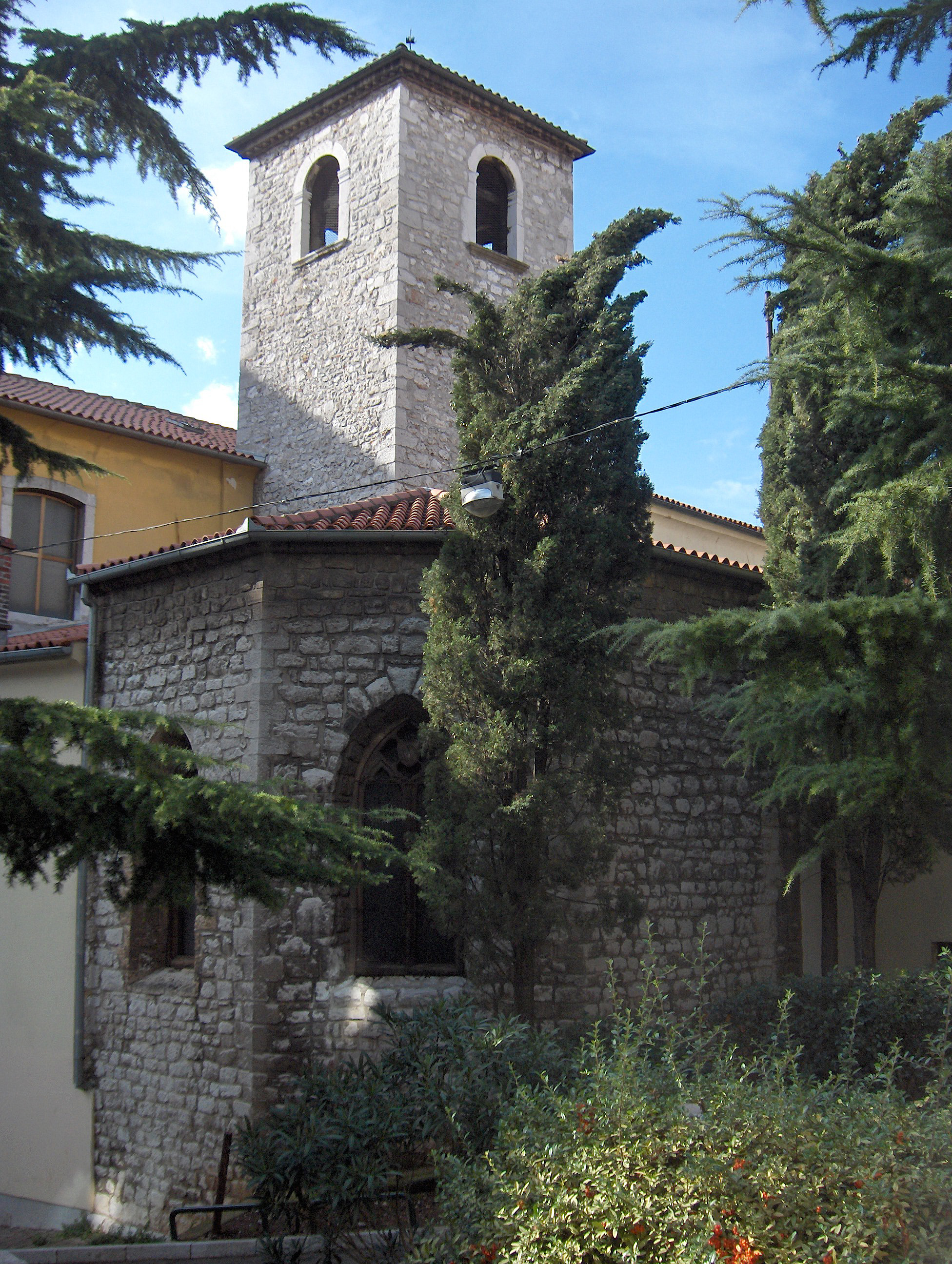 Medieval town wall; Rijeka, Croatia